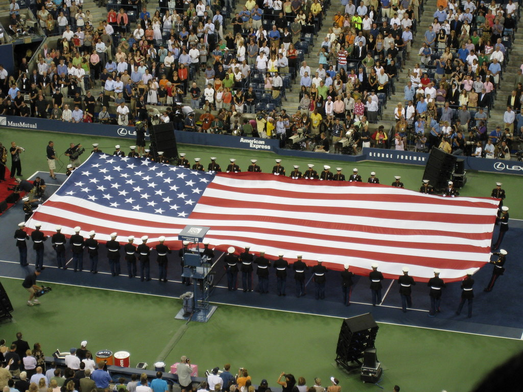 A flag being unraveled over at the 2008 US Open opening ceremony.